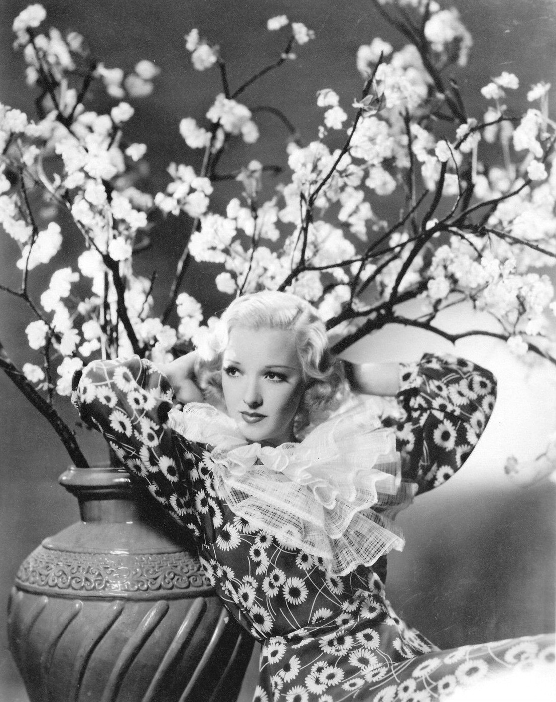 Photo of singer-actress Dixie Lee; she was the first wife of Bing Crosby.